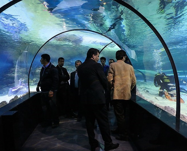 Isfahan aquarium